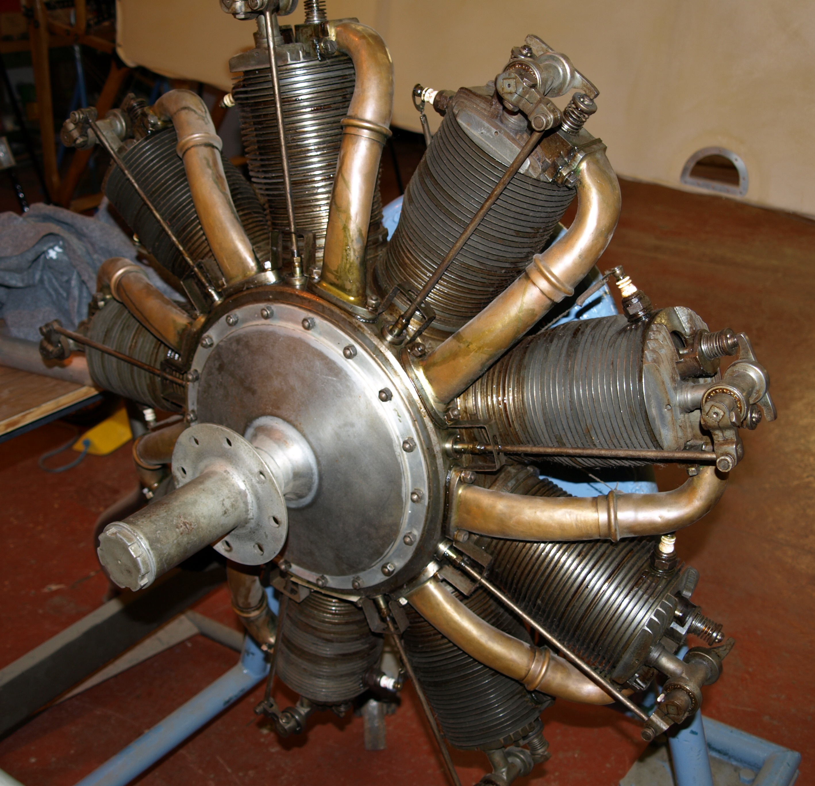 Le Rhône 9J rotary aero engine on display at the Shuttleworth Collection, Old Warden, England.